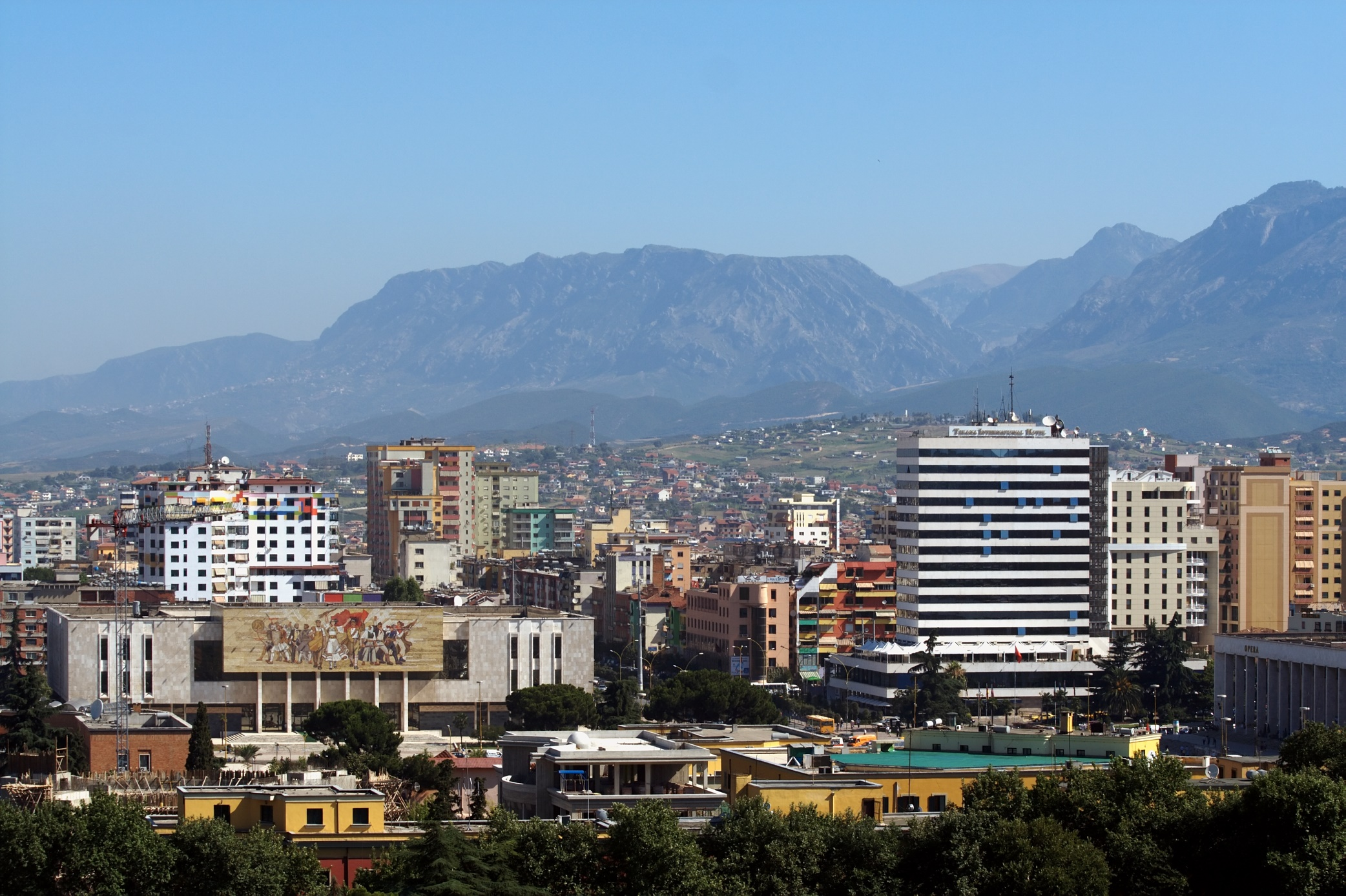 The Skanderbeg square in downtown Tirana, Albania, on the left it's the National Historic Museum, on the right it's the Tirana International Hotel